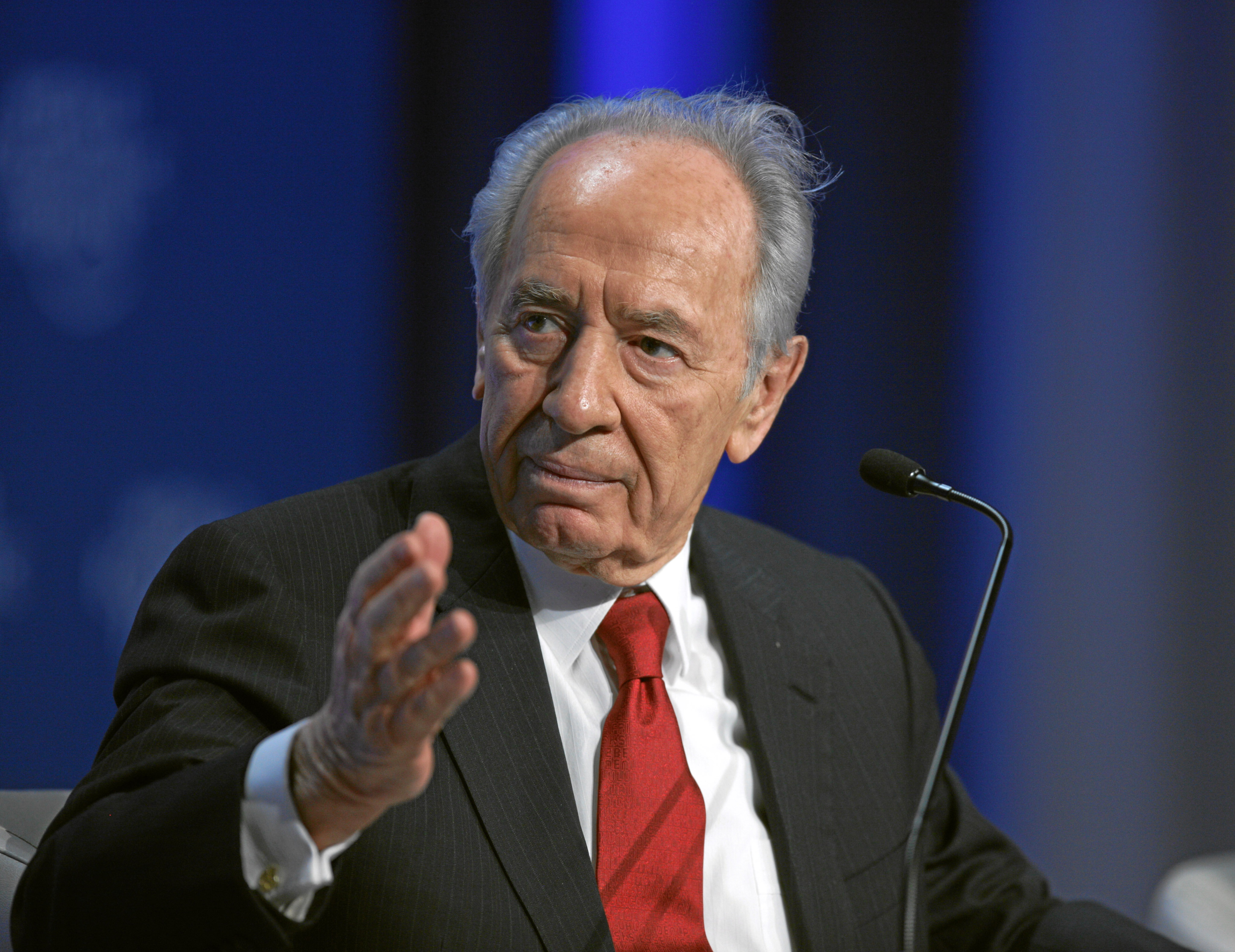 DAVOS-KLOSTERS/SWITZERLAND, 29JAN09 - Shimon Peres, President of Israel during the session 'Gaza: The Case for Middle East Peace' at the Annual Meeting 2009 of the World Economic Forum in Davos, Switzerland, January 29, 2009.. . Copyright by World Economic Forum.